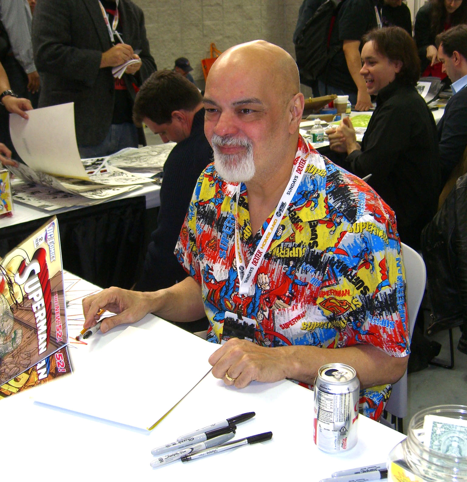 Comics creator George Pérez on Day 3 of the 2012 New York Comic Con, Saturday October 13, 2012 at the Jacob K. Javits Convention Center in Manhattan. This photo was created by Luigi Novi. It is not in the public domain, and use of this file outside of the licensing terms is a copyright violation.